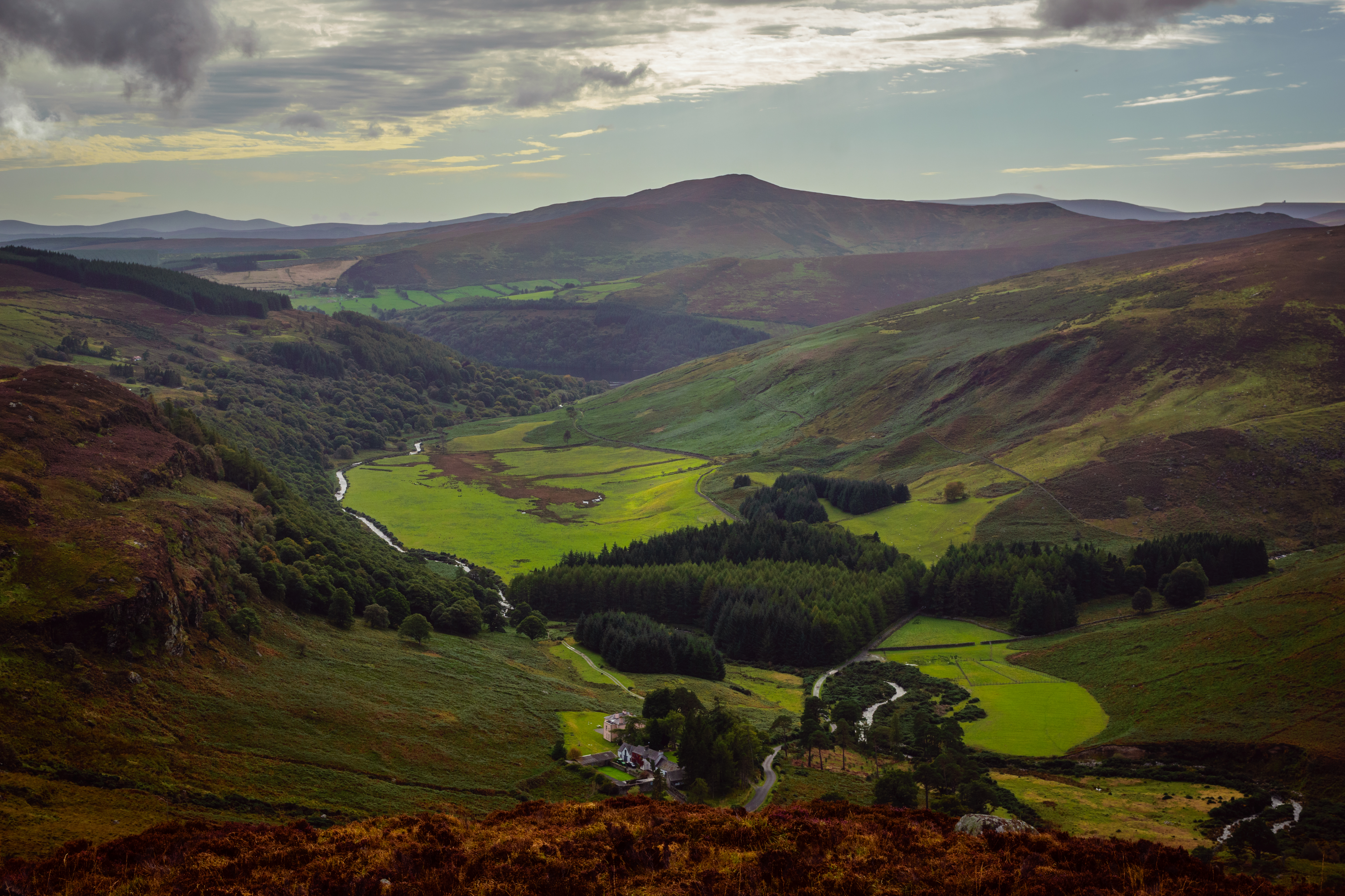 Scarr Mountain in Wicklow, looking across Luggala estate and Lough Dan